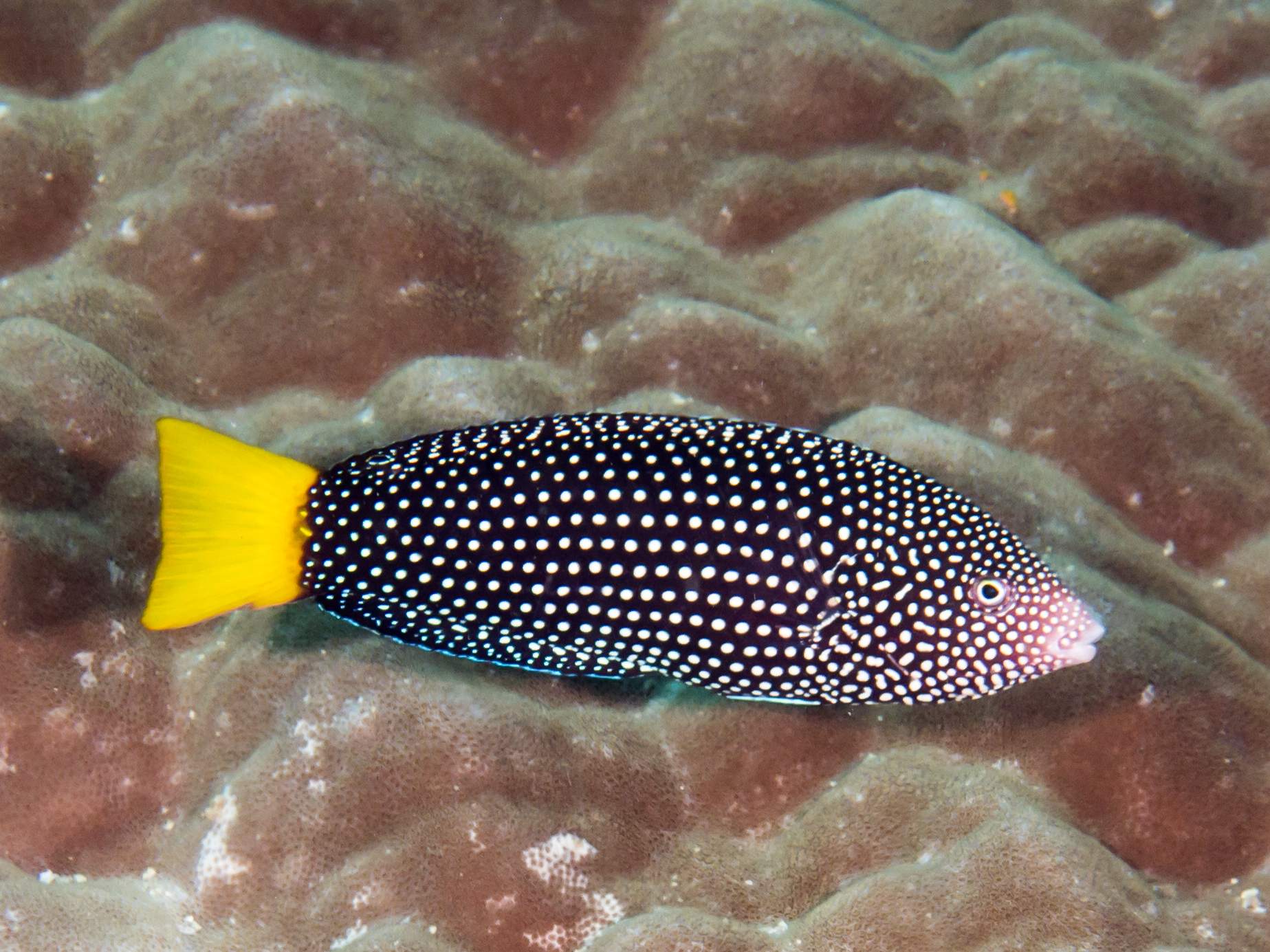 Morotai, Indonesia - Yellowtail wrasse (Anampses meleagrides)